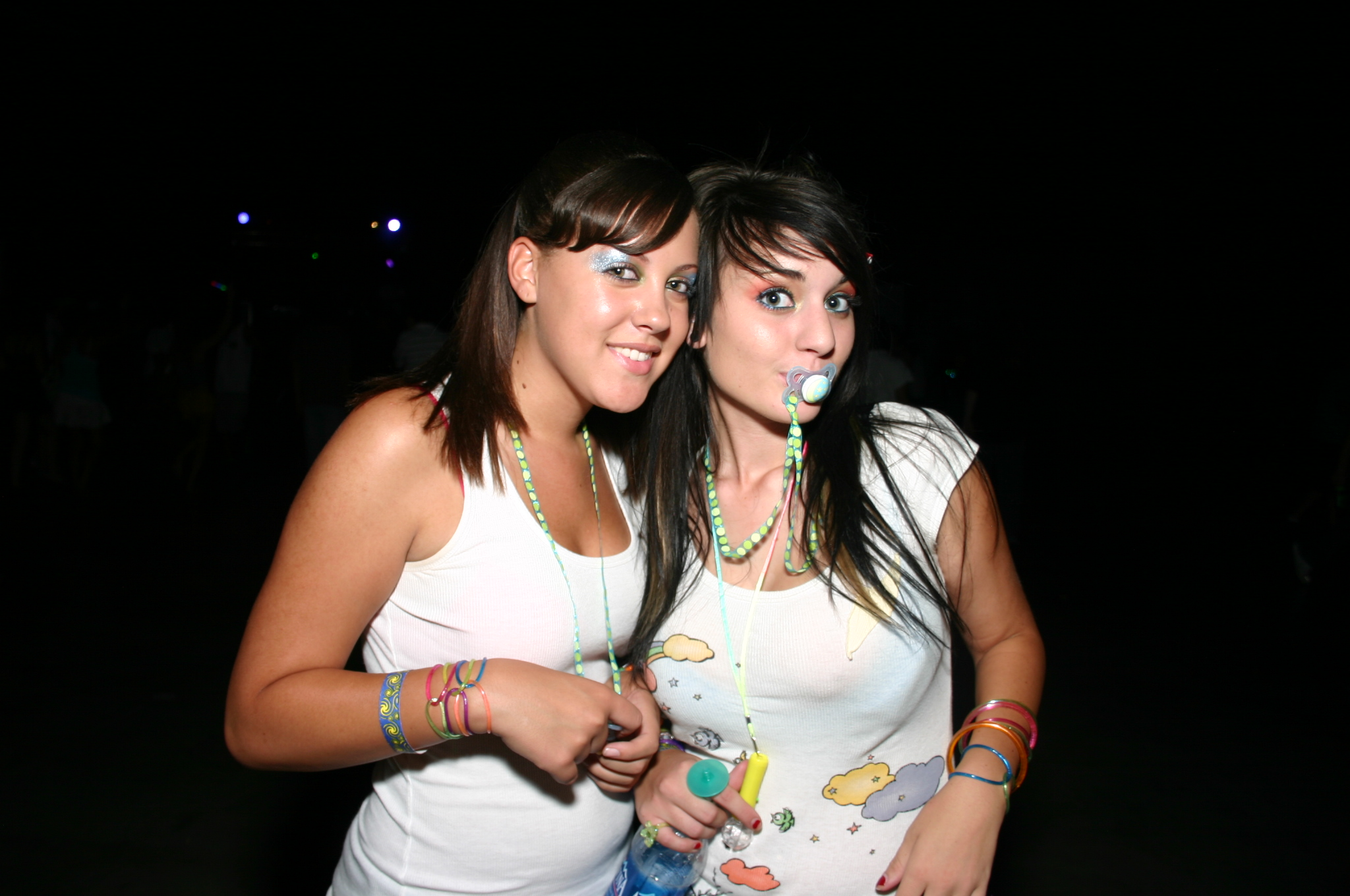 IT Productions LA